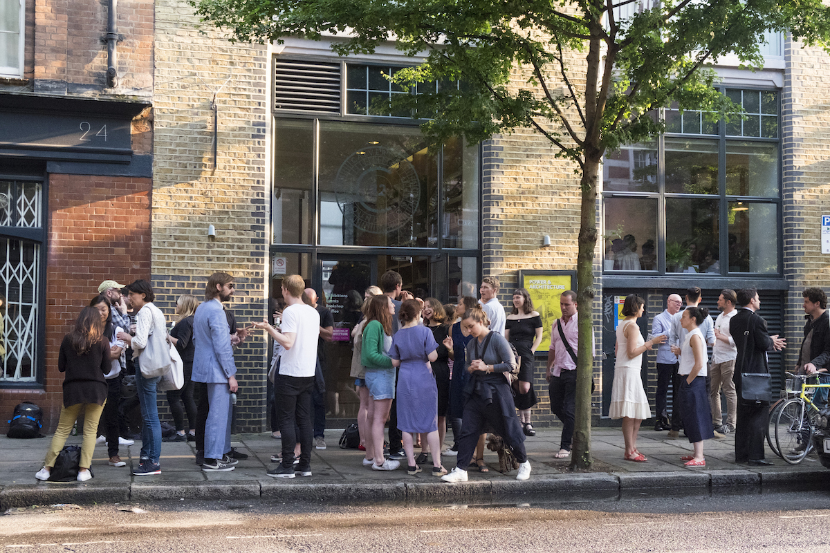 Opening reception at Calvert 22 Foundation in London